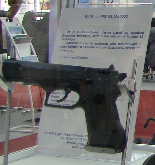 Weapons made by UM Cugir at Black Sea Defense and Aerospace 2010.